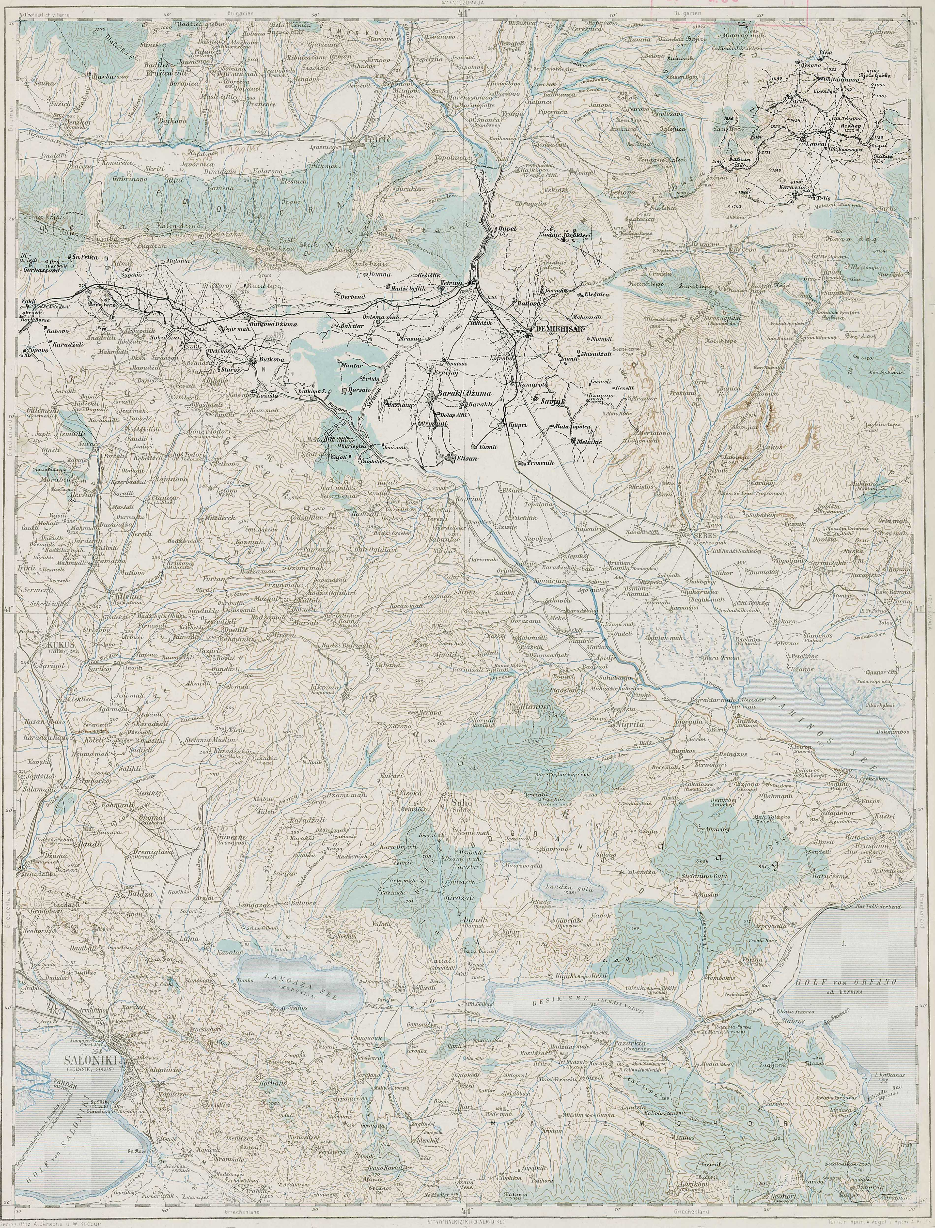 3rd Military Mapping Survey of Austria-Hungary - Saloniki